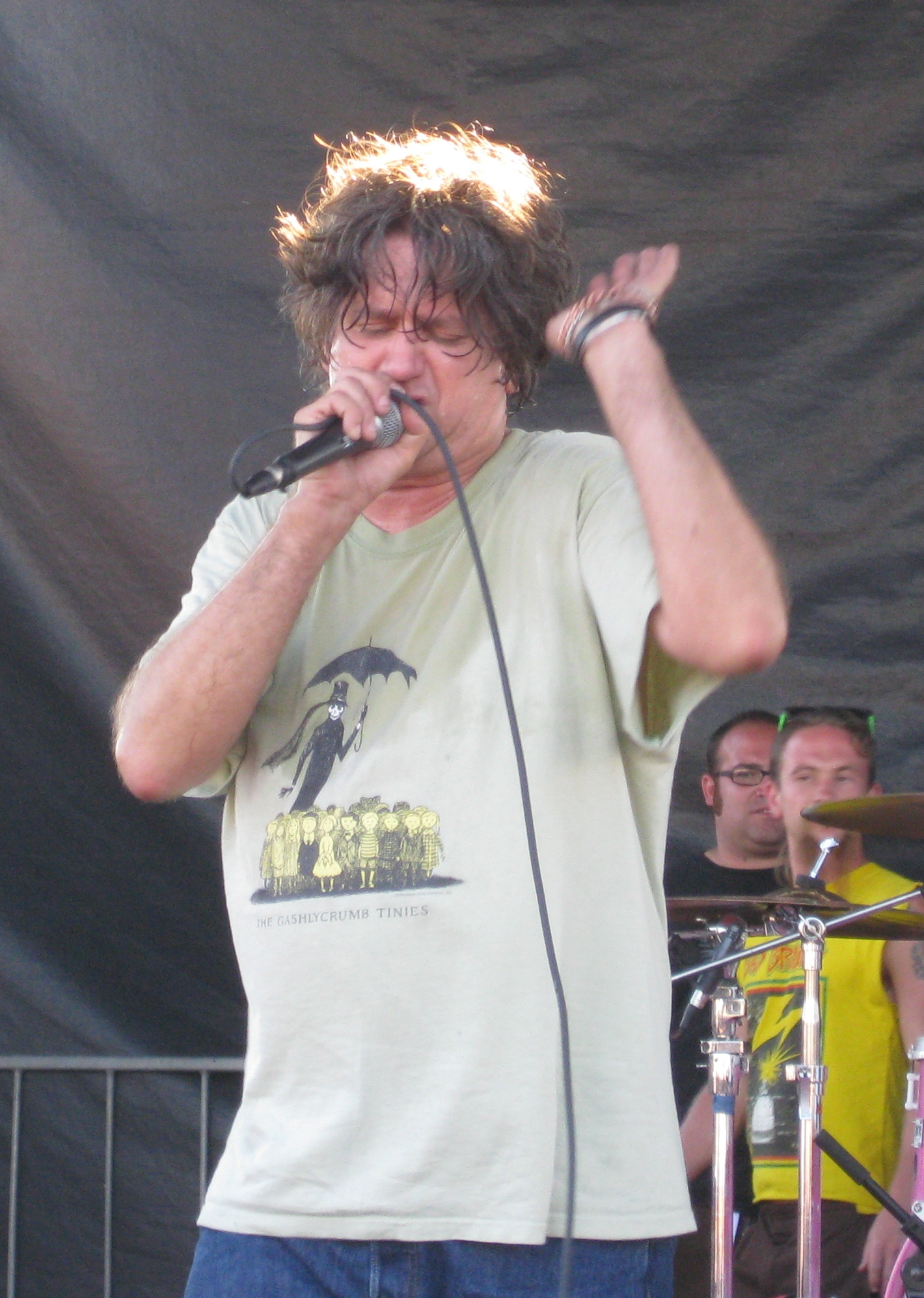 Tony Cadena of The Adolescents performing on the Warped Tour at the Cricket Wireless Amphitheatre in Chula Vista, California on August 10, 2010.